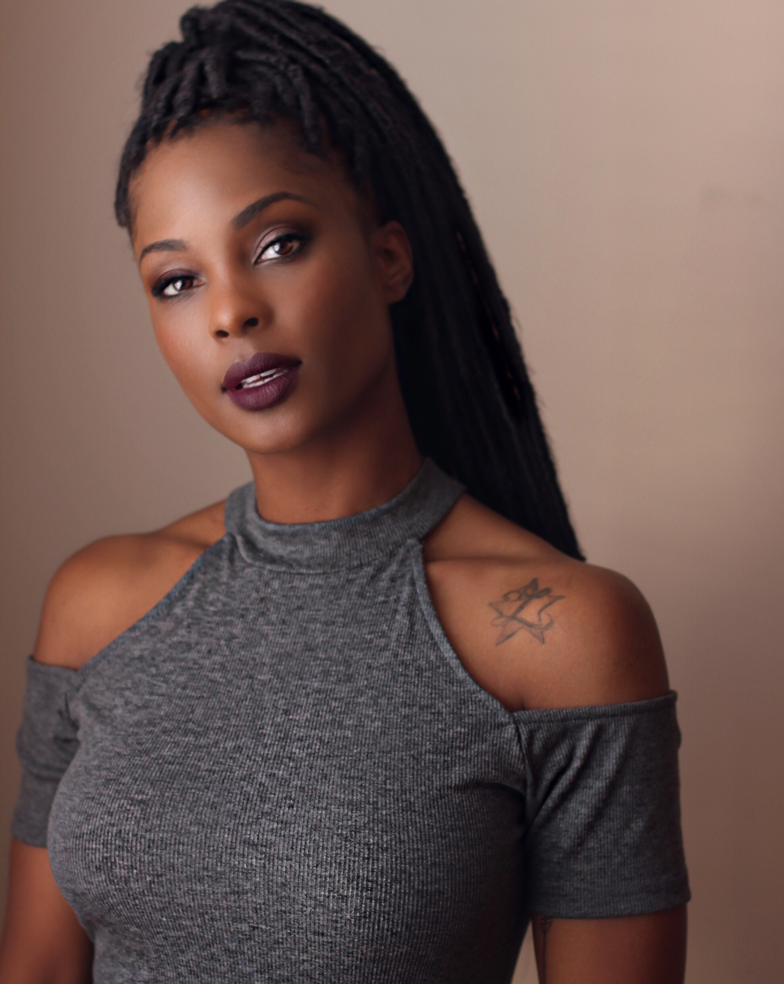 A portrait of model, actress and photographer Lanisha Cole